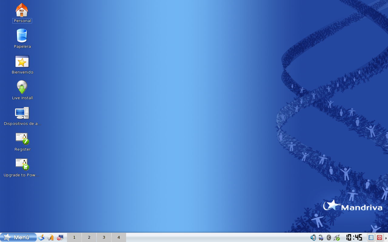 Screenshoot of "Mandriva" Linux Distribution, 2008, LiveCD